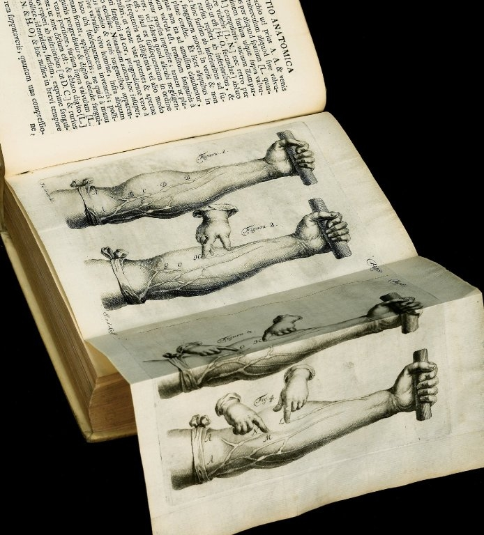 Image of an unfolded chart of drawings of arms showing blood vessels to demonstrate how the valves and arteries are interconnected and how the valves in the veins allow blood to flow back toward the heart. Exercitatio anatomica de motu cordis et sanguinis in animalibus, chap. 13.